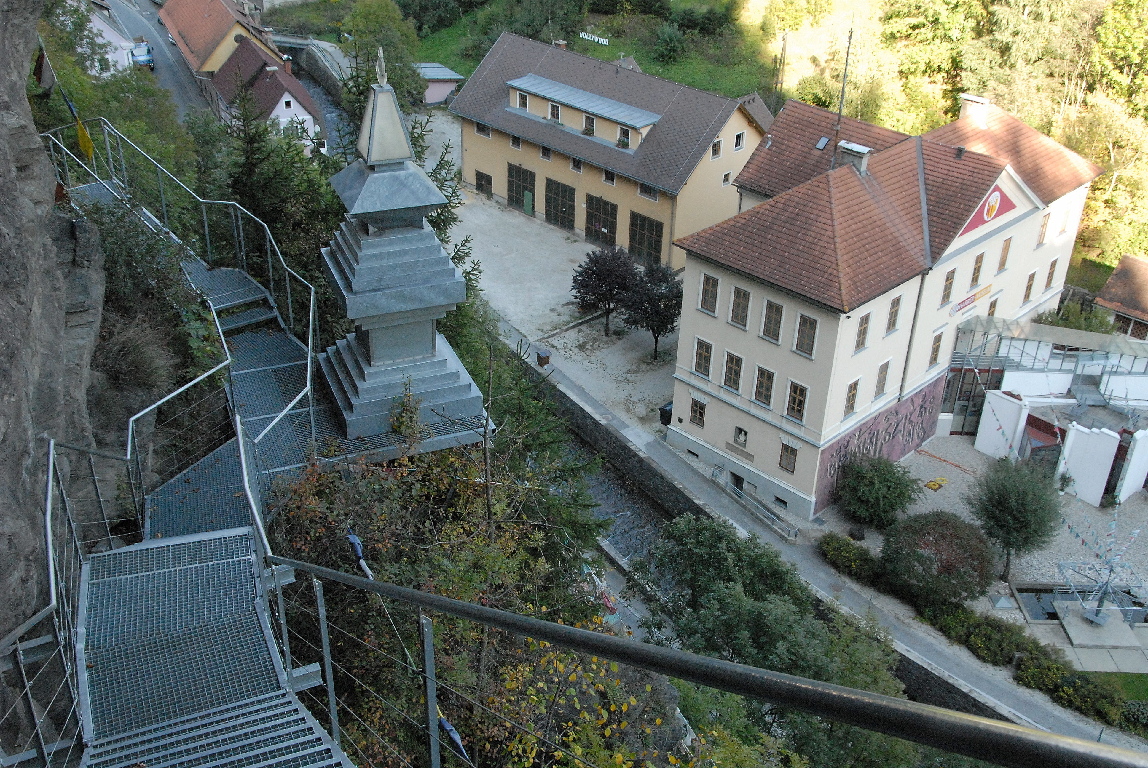 Heinrich Harrer museum, seen from the Tibetian pilgrimage-path Lingkor at Huettenberg in the district Saint Veit on the Glan, Carinthia, Austria